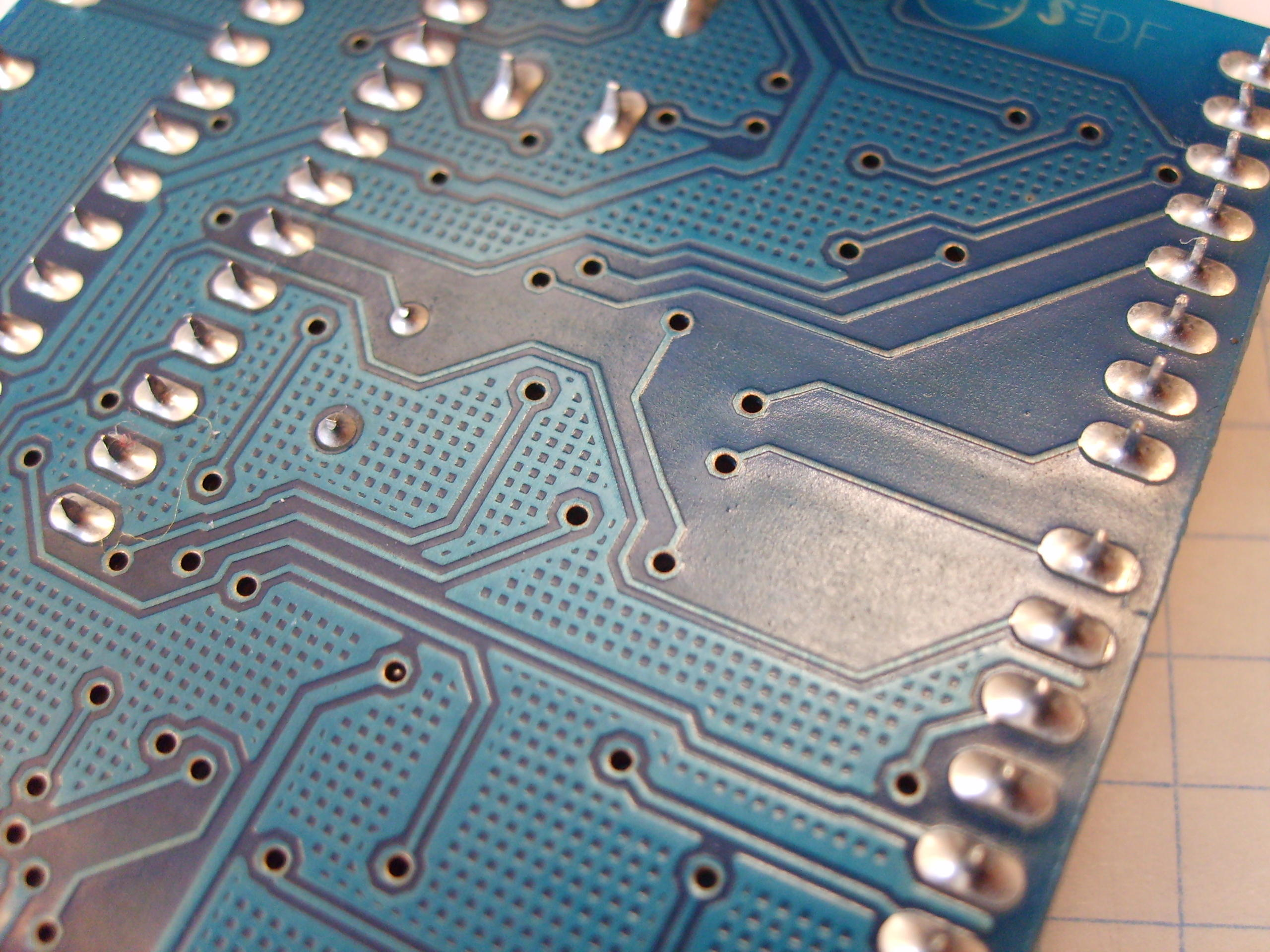 Backside of the Arduino NG board from arduino.cc. A circuit board with an Atmel ATmega8 microcontroller. Close-up shot.